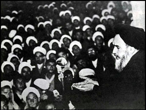 Ruhollah Khomeini speaking to his followers against capitulation day 1964.